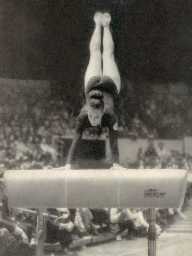 1973 US Gymnast Nancy Thies at Madison Square Garden Press Photo